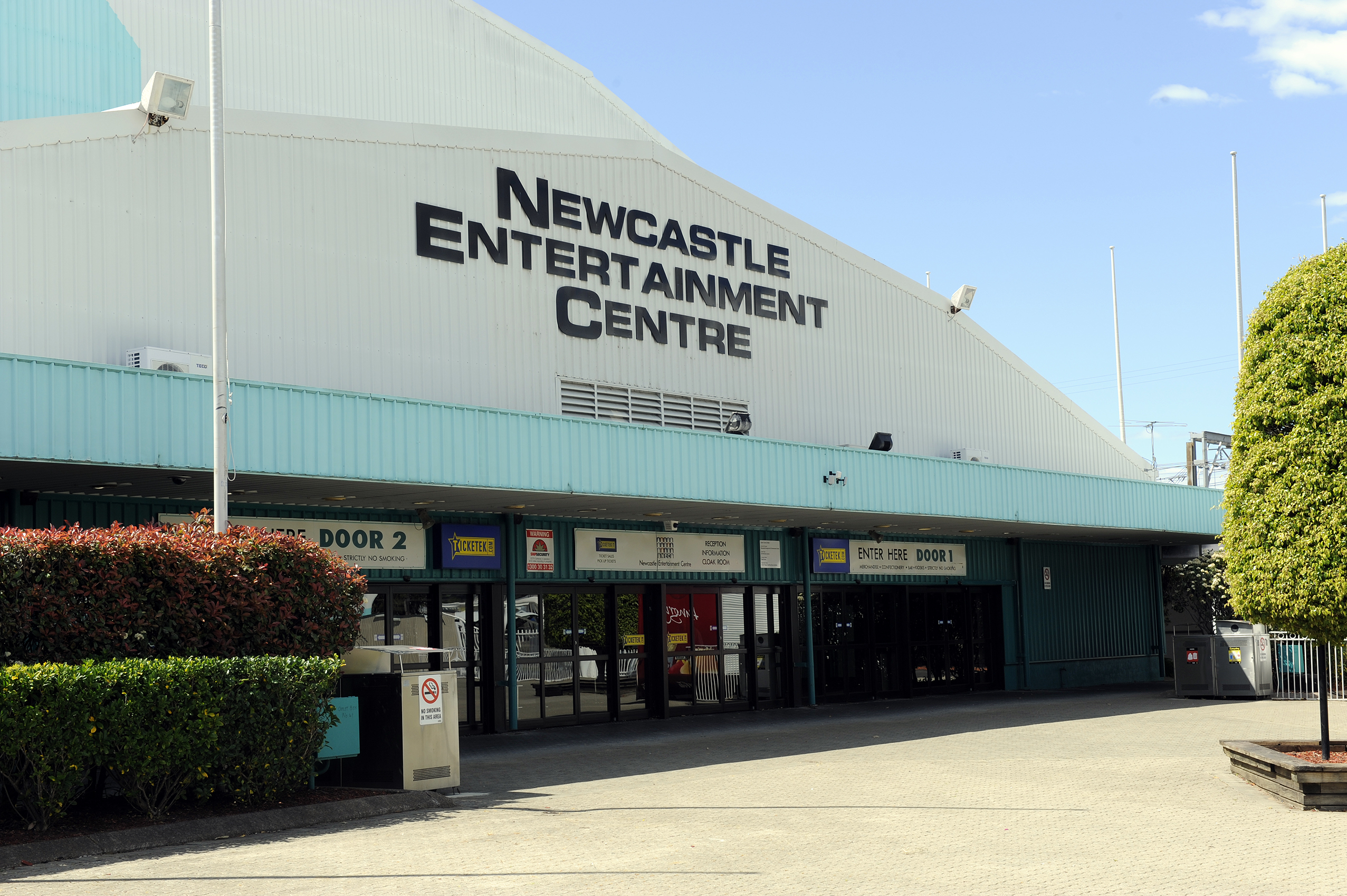 Outside of NEC taken Sept 2013